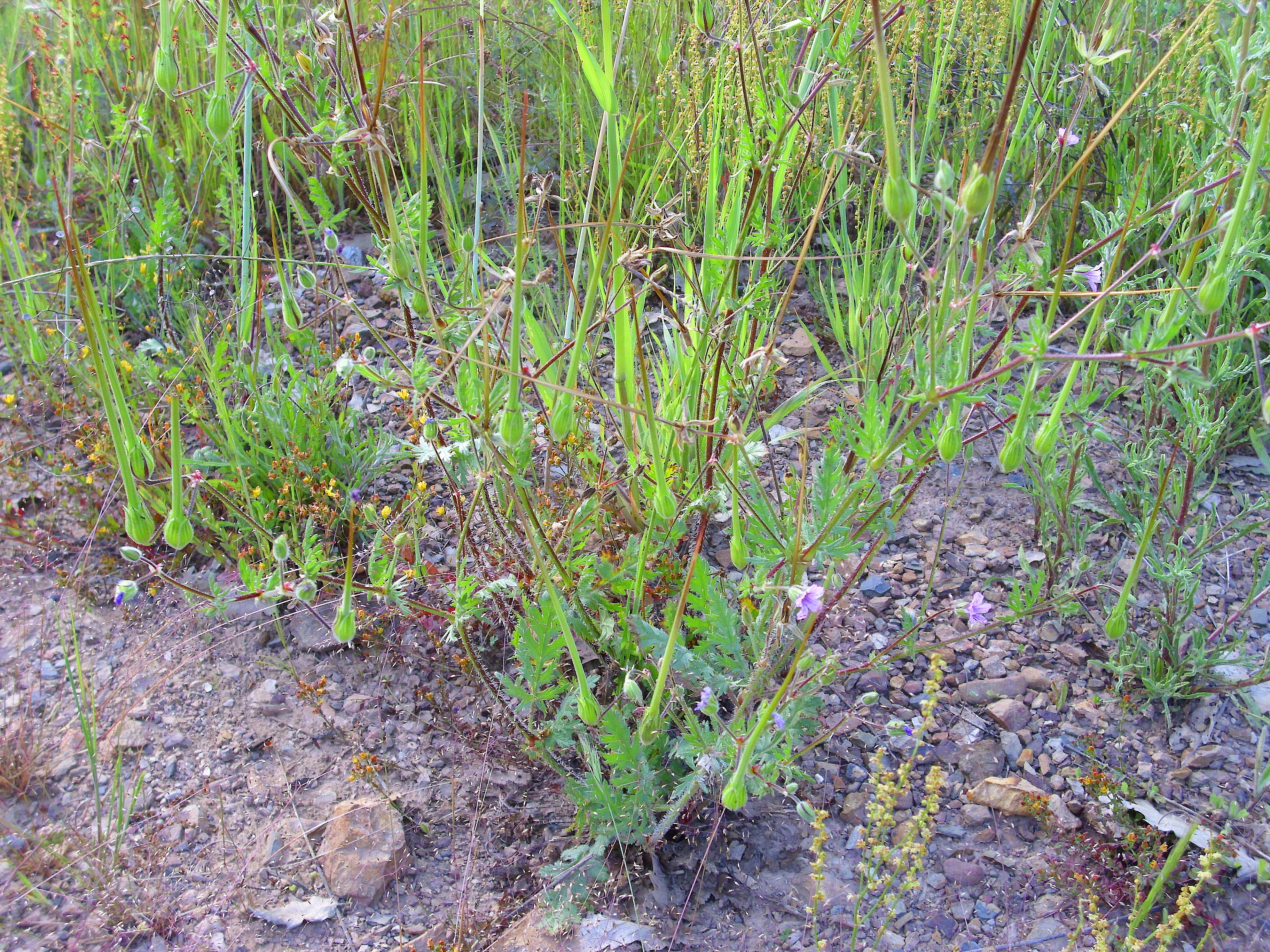 Erodium ciconium habit, Sierra Madrona, Spain